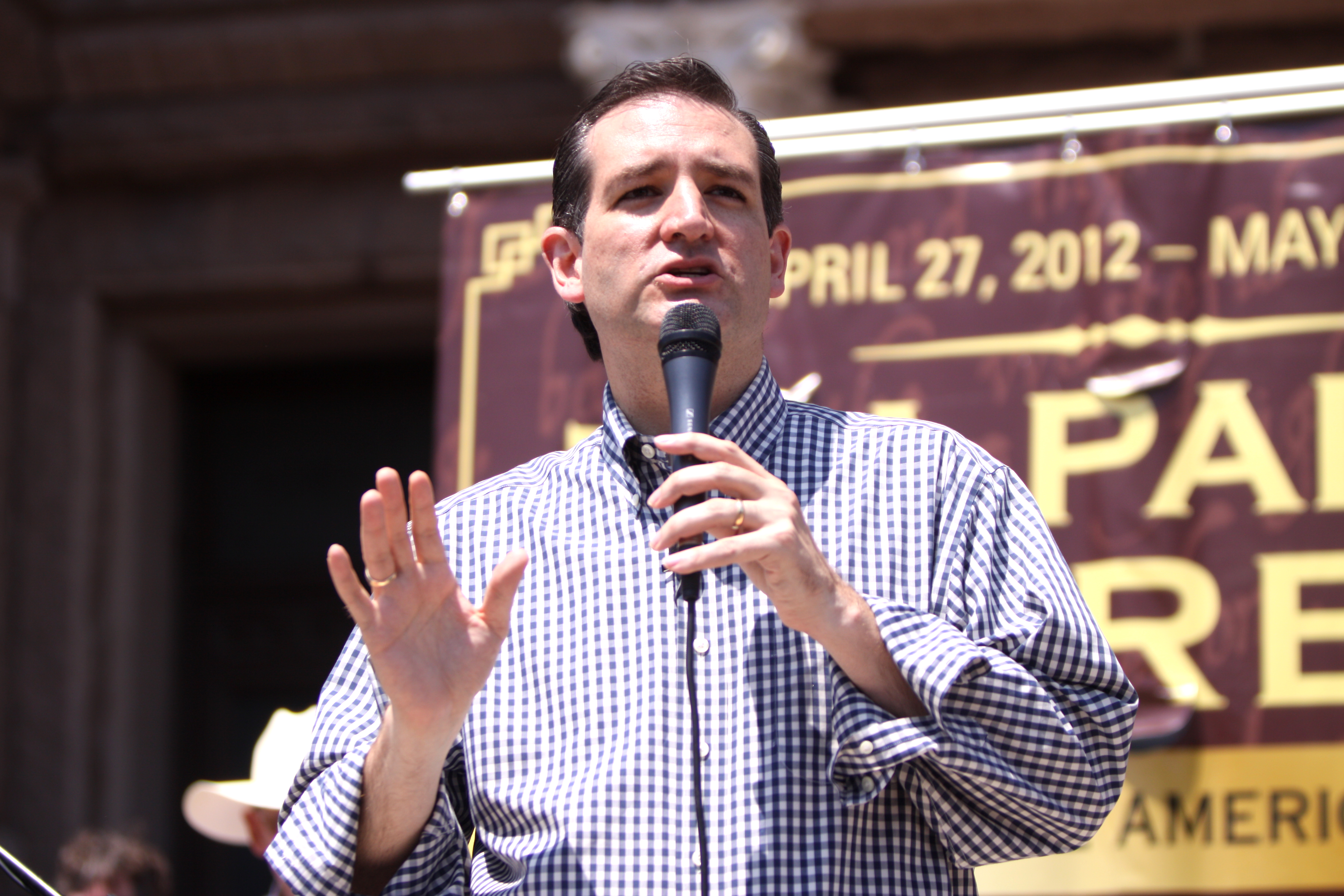 Ted Cruz speaking to Tea Party Express supporters at a rally in Austin, Texas.